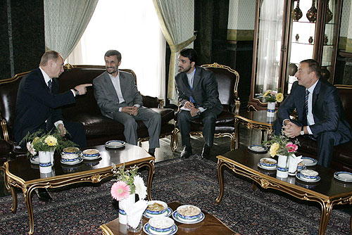 TEHRAN. With the President of Iran, Mahmoud Ahmadinejad. On the right, the President of Azerbaijan, Ilham Aliev.